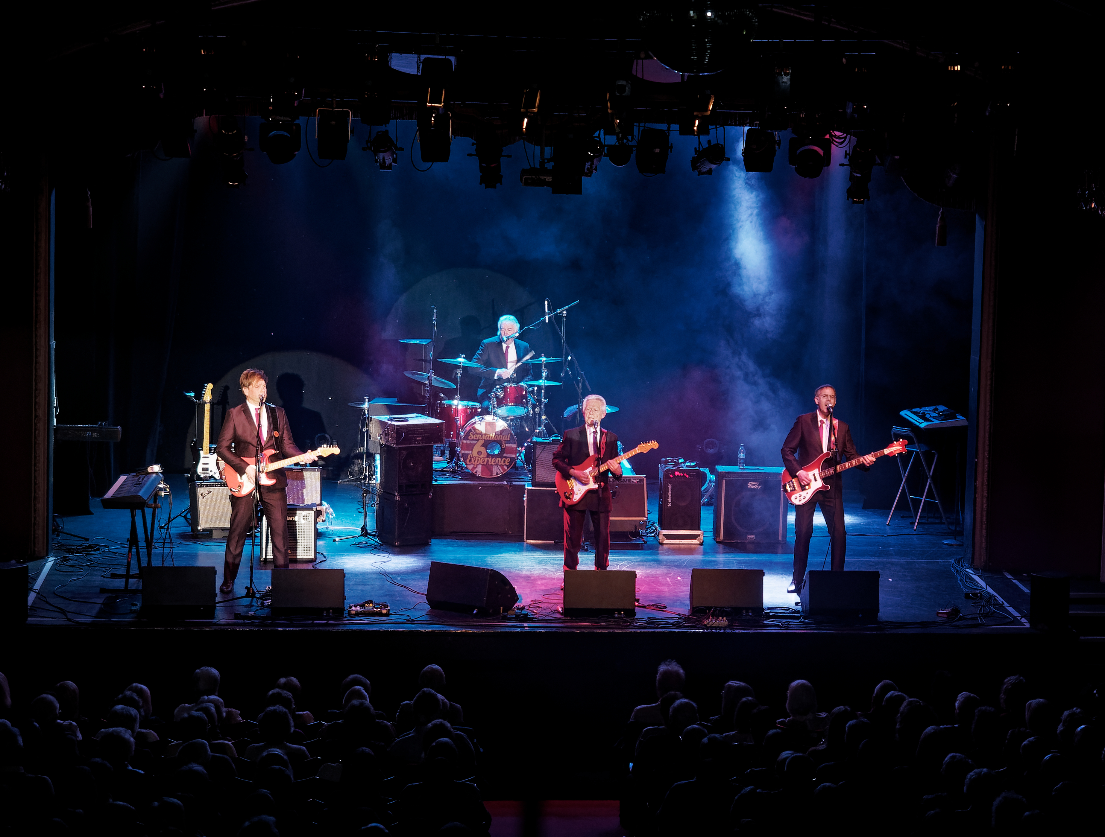 The Fourmost appearing on the Sensational 60s Experience Tour at the West Cliff theatre, Clacton-on-Sea, UK in 2019.